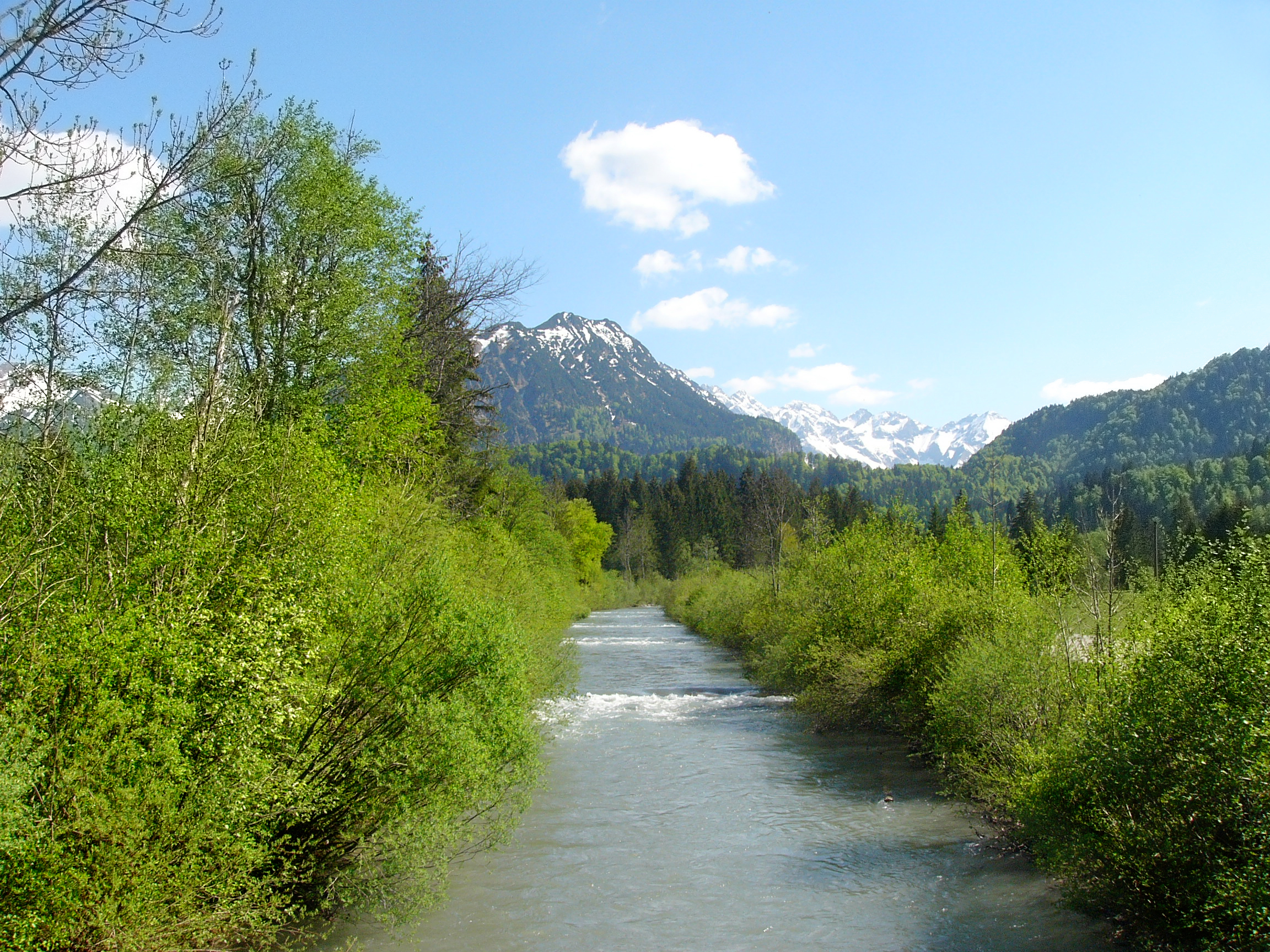 The Stillach is a 23 km long river in the Allgäu Alps in southwest Bavaria, Germany. View of the Stillach south of Oberstdorf.